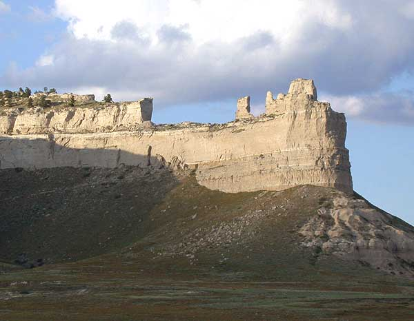 Saddle Rock in Category:Scotts Bluff National Monument, near Gering, Nebraska (taken Oct. 4, 2004)